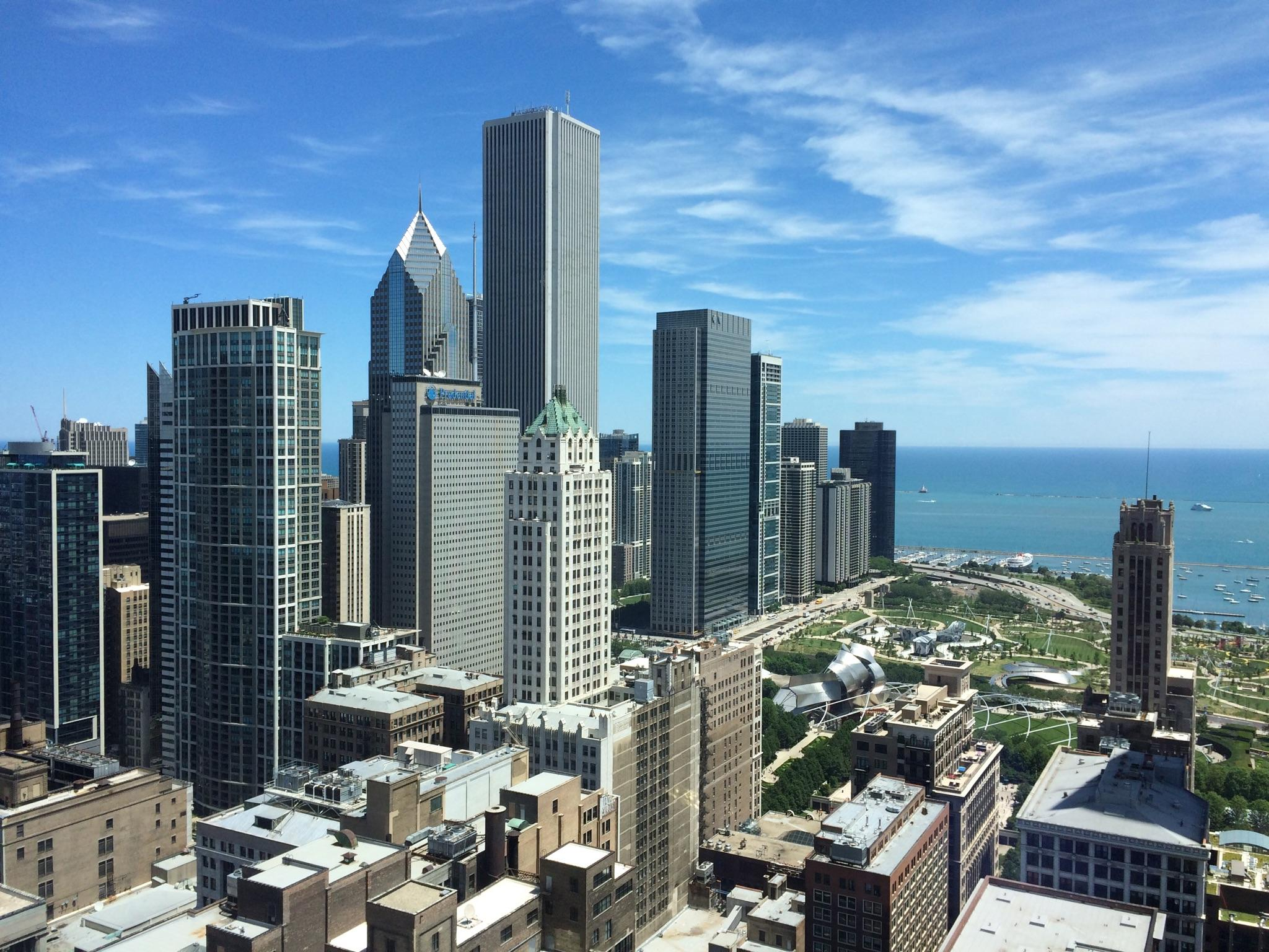 Picture taken from an office building